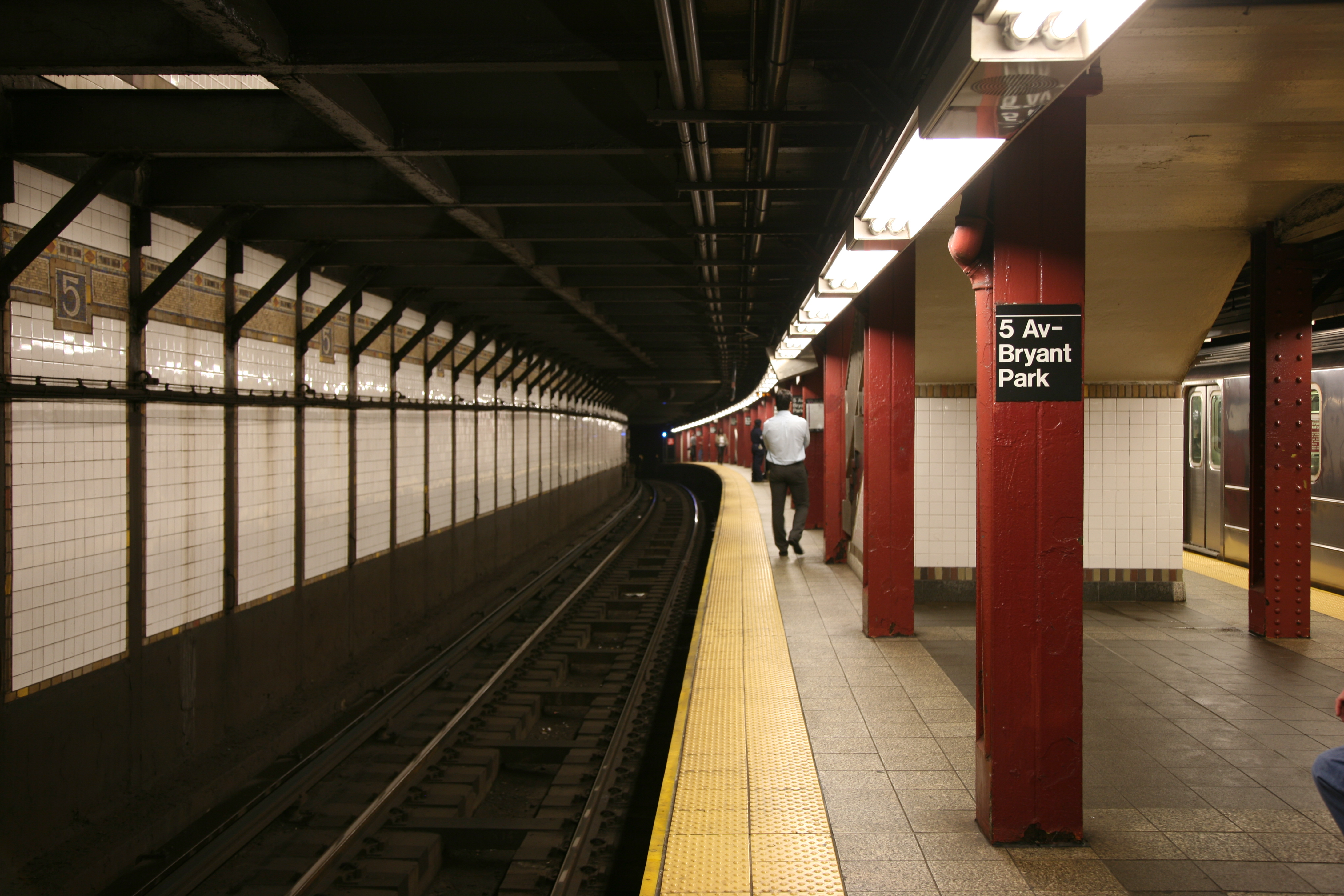 5th Avenue and Bryant Park New York City Subway station